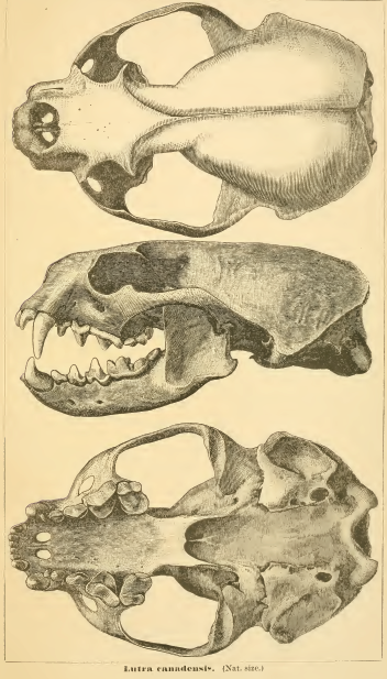 River otter skull